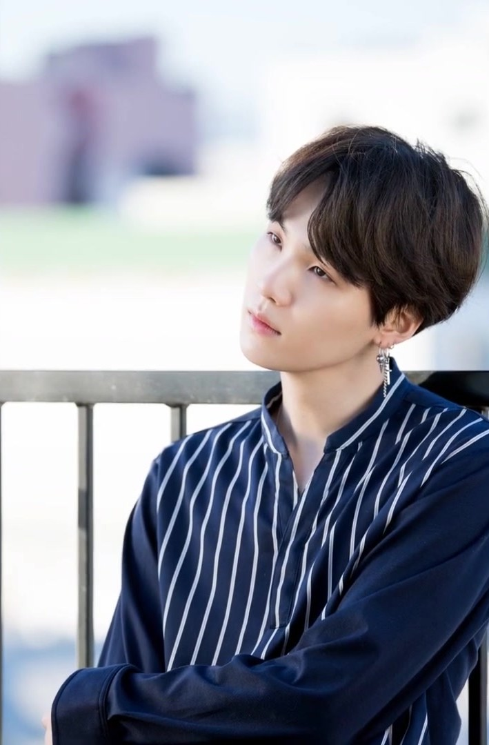 Suga for BTS 5th anniversary party in LA photoshoot by Dispatch, May 2018